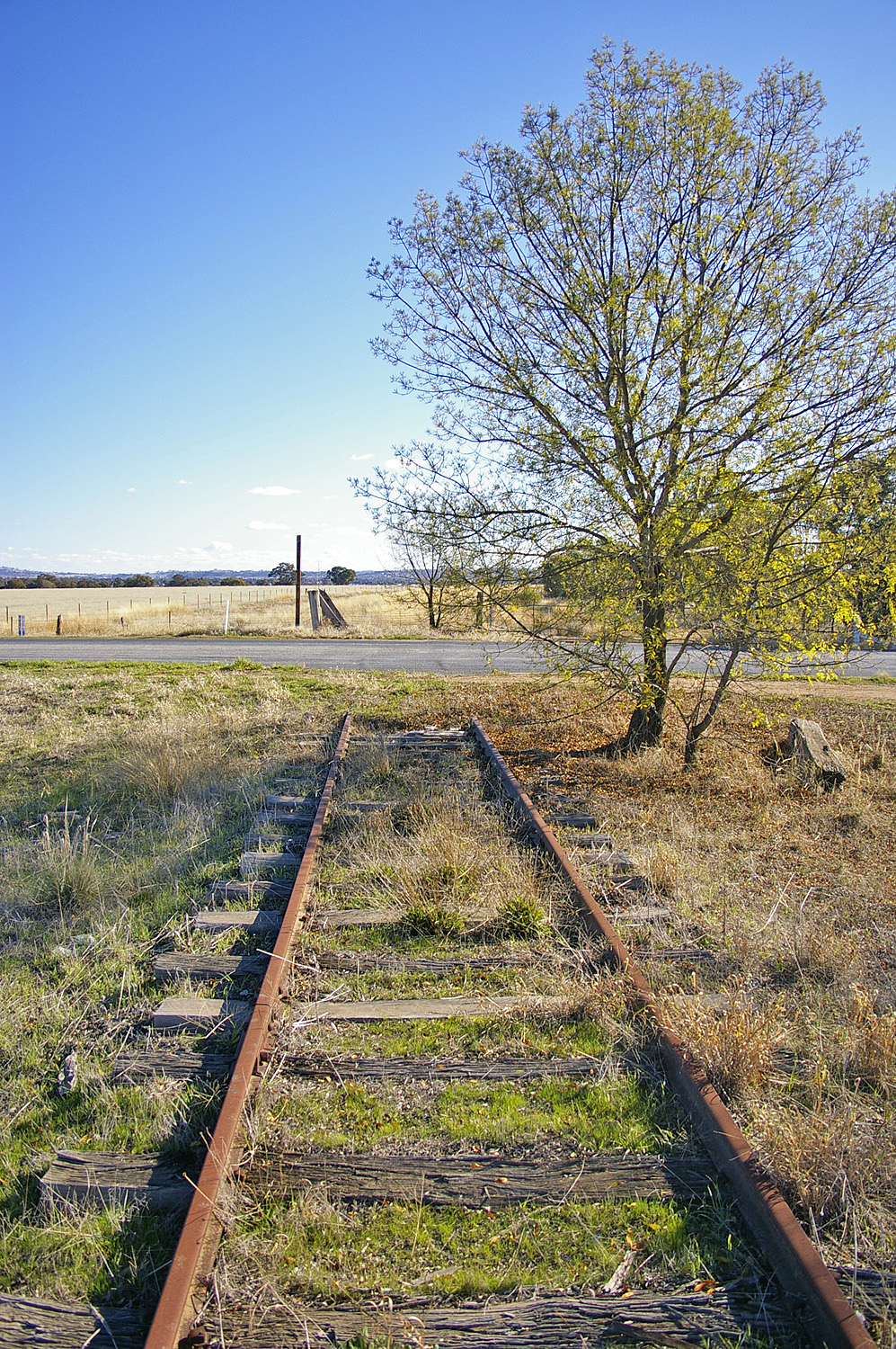 Remains of the disused Wagga Wagga to Tumbarumba Railway line which opened in 1917 and closed in the 1986.